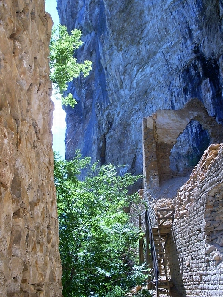 Puxer Hole cave-castle-ruin, (detailed route) Frojach Styria Austria Rottenmanner und Wölzer Tauern.